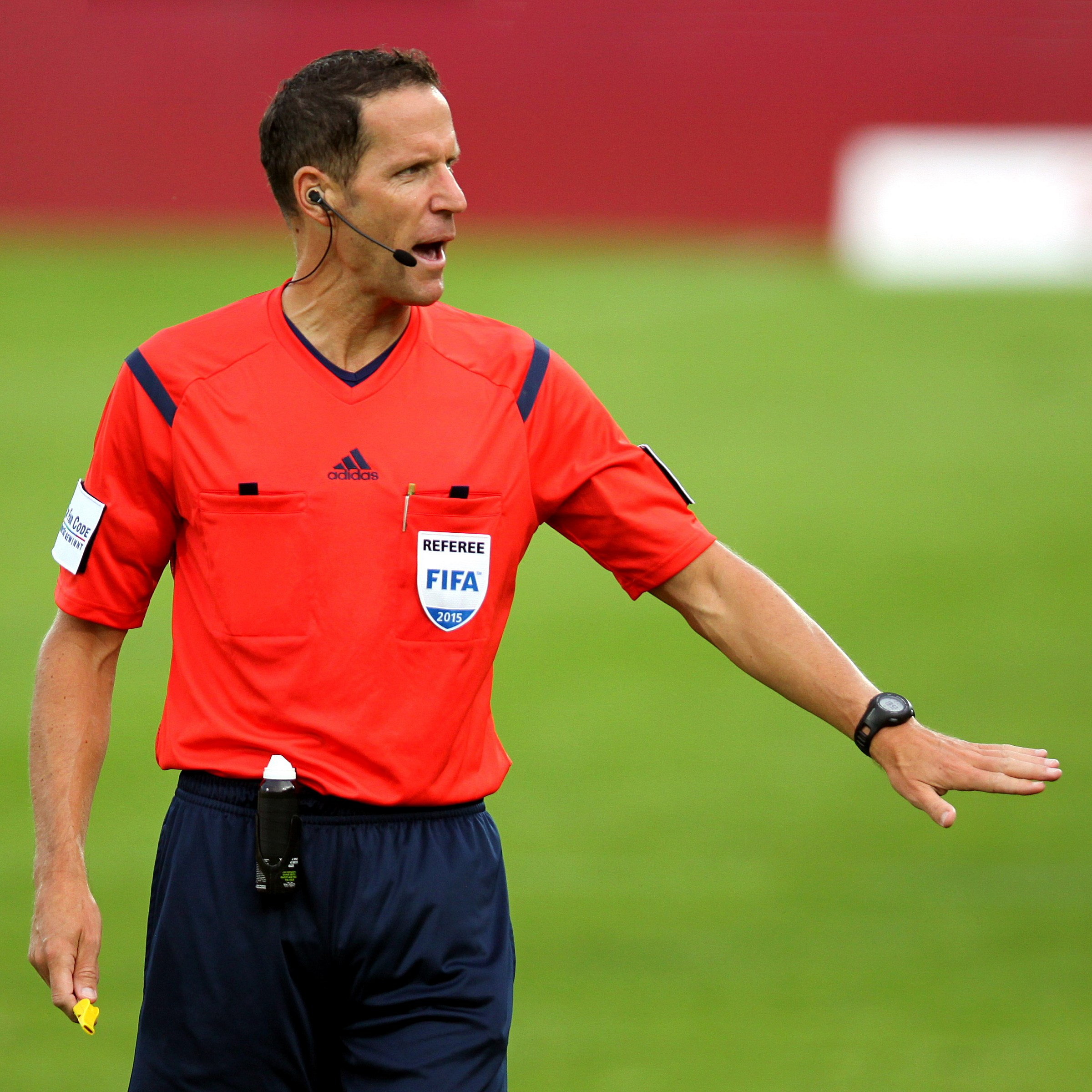 Match of the Austrian Football Bundesliga – SV Mattersburg (green shirts) vs. SK Sturm Graz (white shirts) on 2015-09-13 in Pappelstadion, Mattersburg – The photo shows referee Robert Schörgenhofer